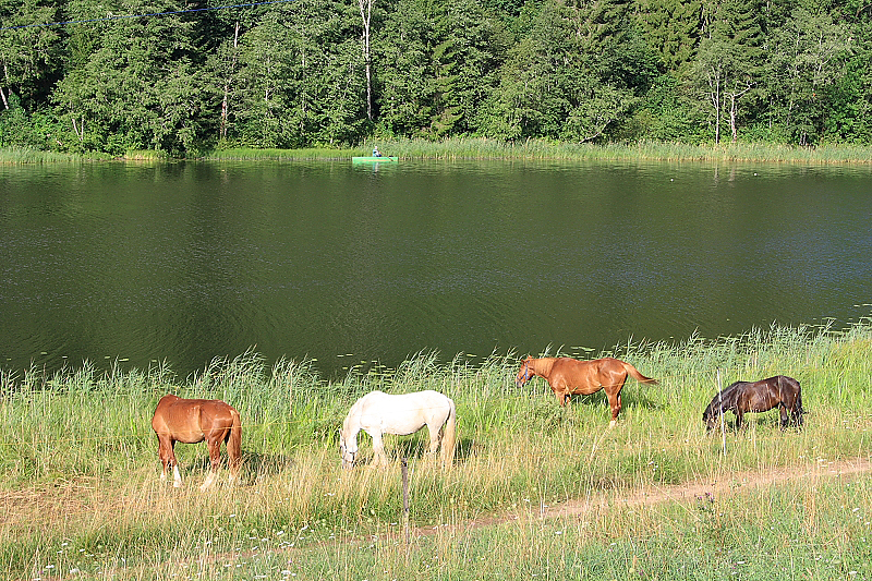 Horses on the shore of lake Ratasjärv in Rõuge, Estonia